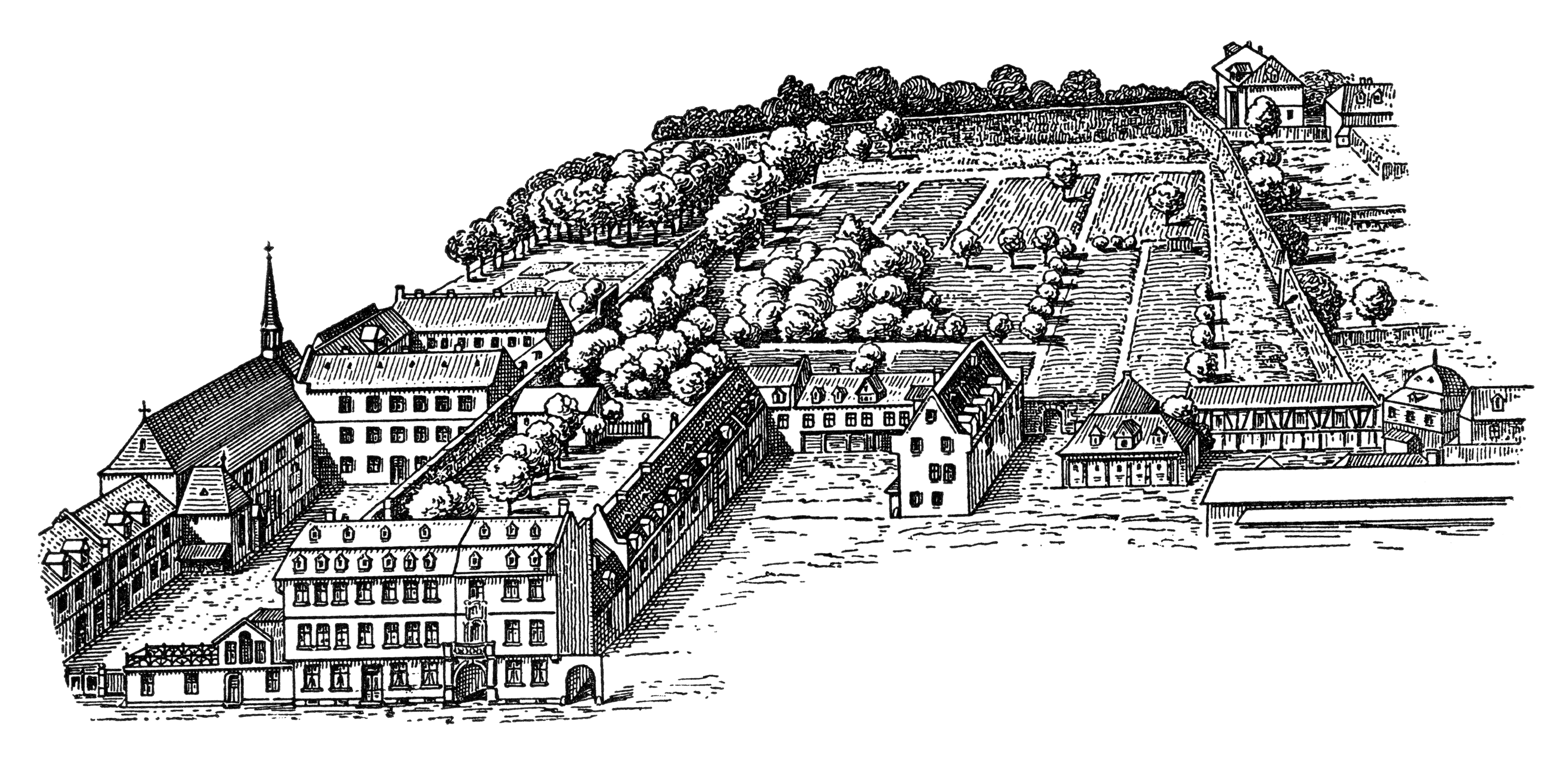 Frankfurt on the Main: Weissfrauenkirche (St. Mary Magdalene's Church) with cloister complex and Weisser Hirsch (White Stag) with its garden between Weissfrauenstraße (St. Mary Magdalene's Street) and Grosser Hirschgraben (Great Stag Ditch) as seen to the west from an bird's eye view